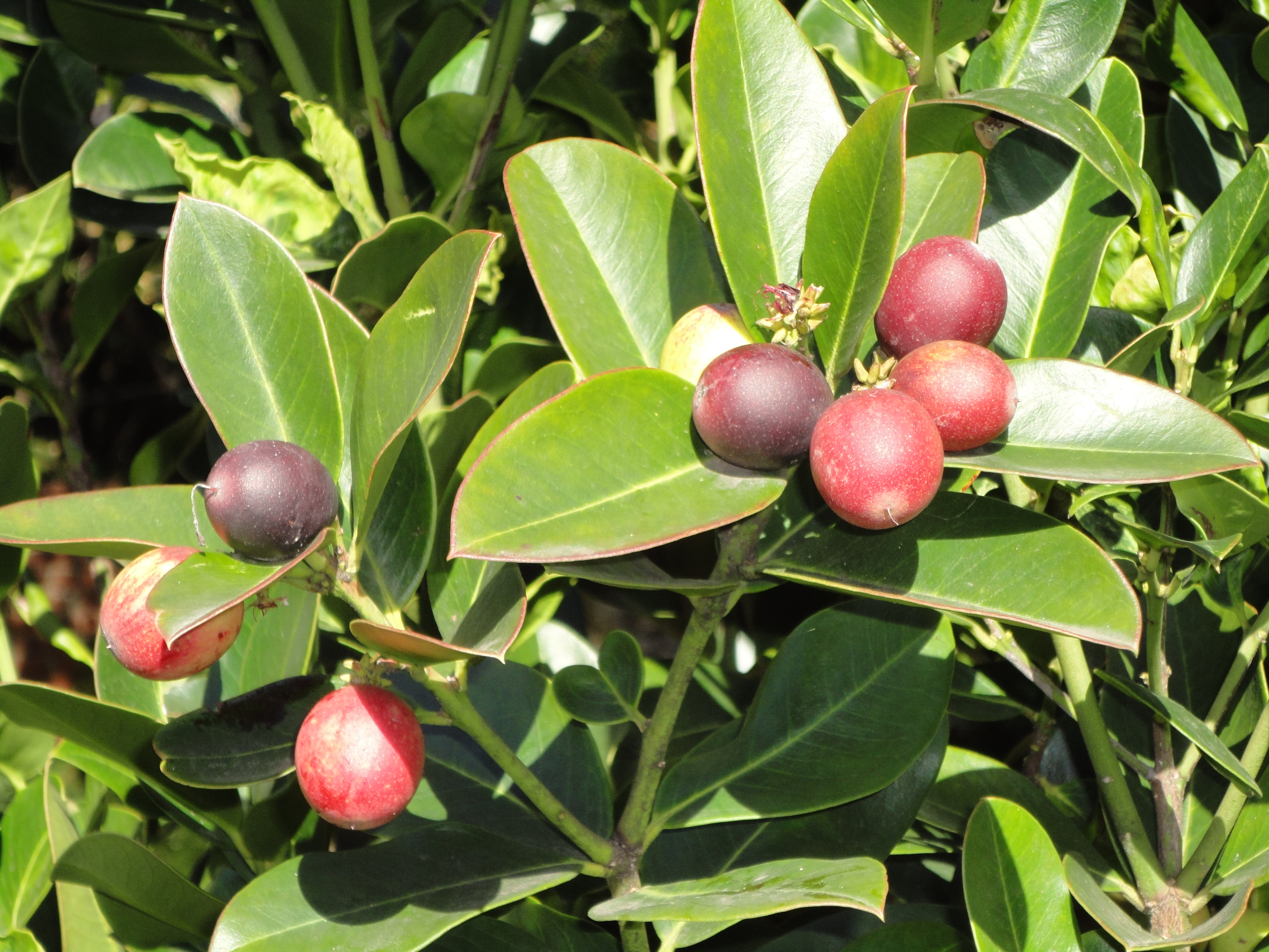 Fruit of a Common Poison-bush, Old Fort gardens, Durban